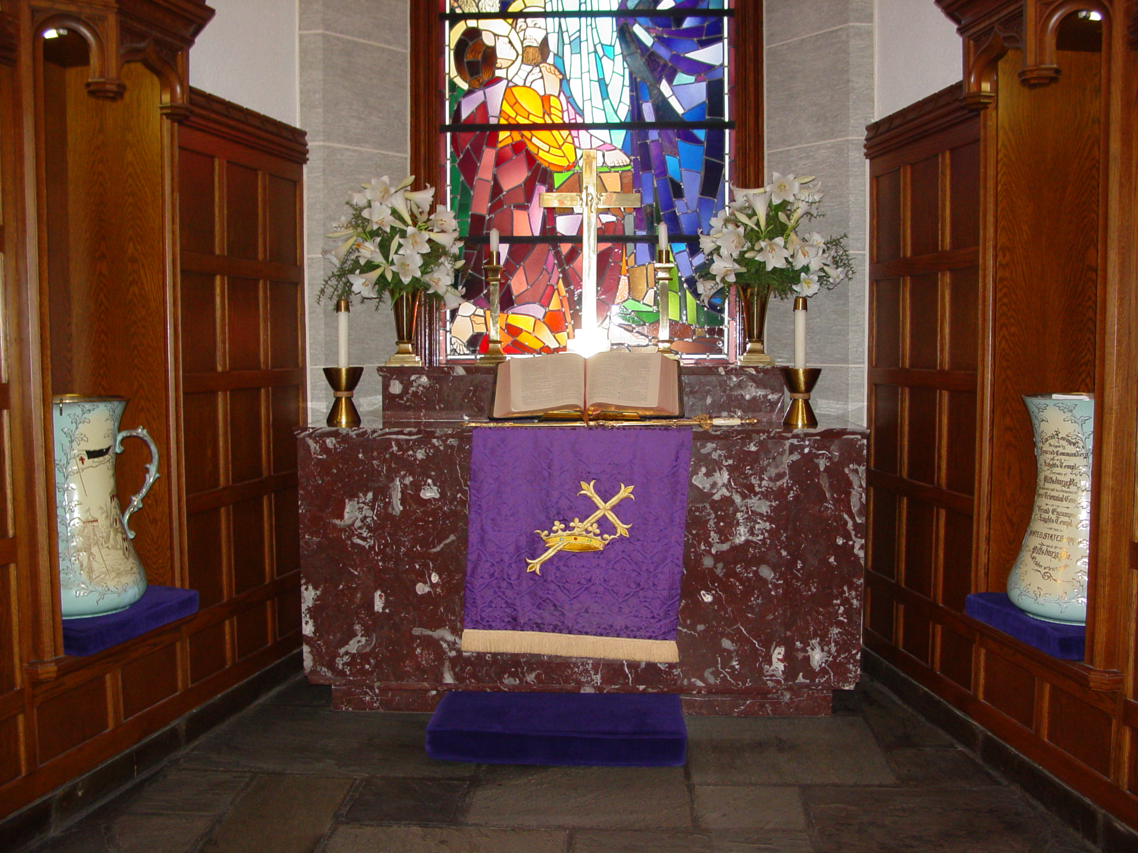 Centerpiece of the Knights Templar Room in the George Washington Masonic National Memorial.